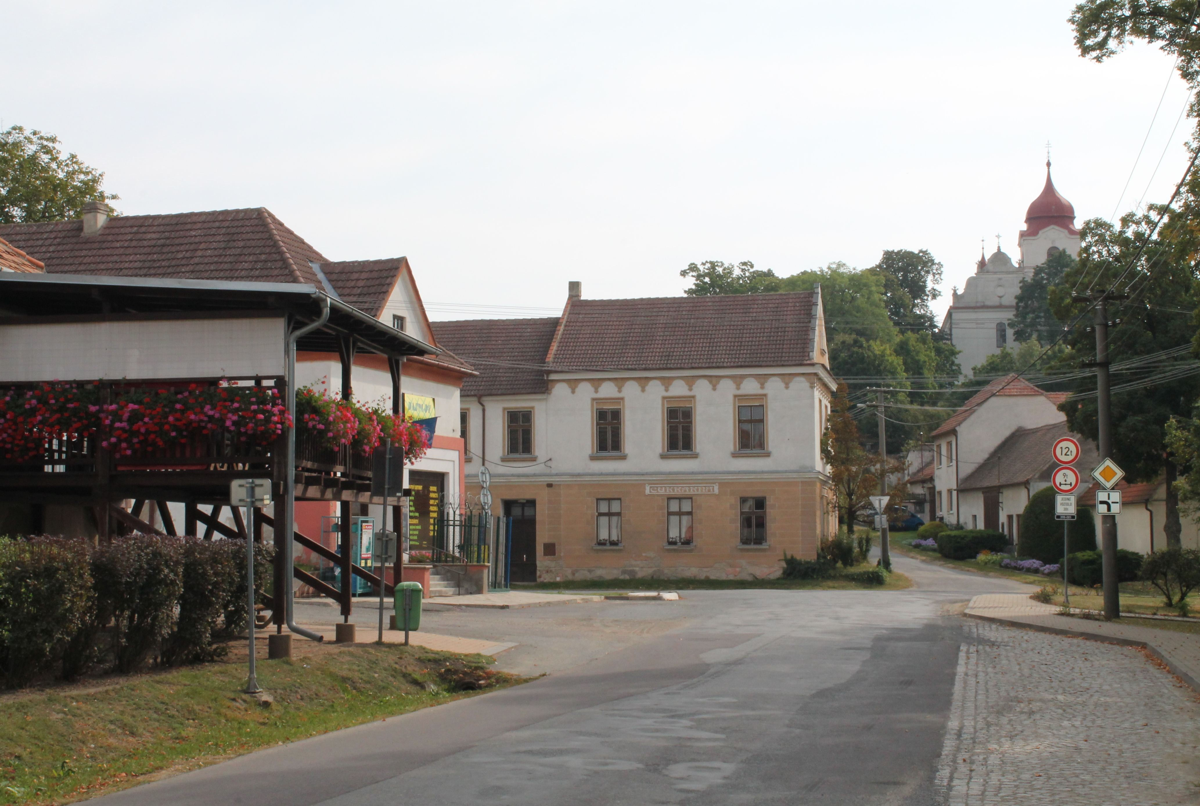 Trstěnice, Znojmo District, Czech Republic This photograph was taken during a group photography field trip by Brno Wikipedians: 2016-09-28.